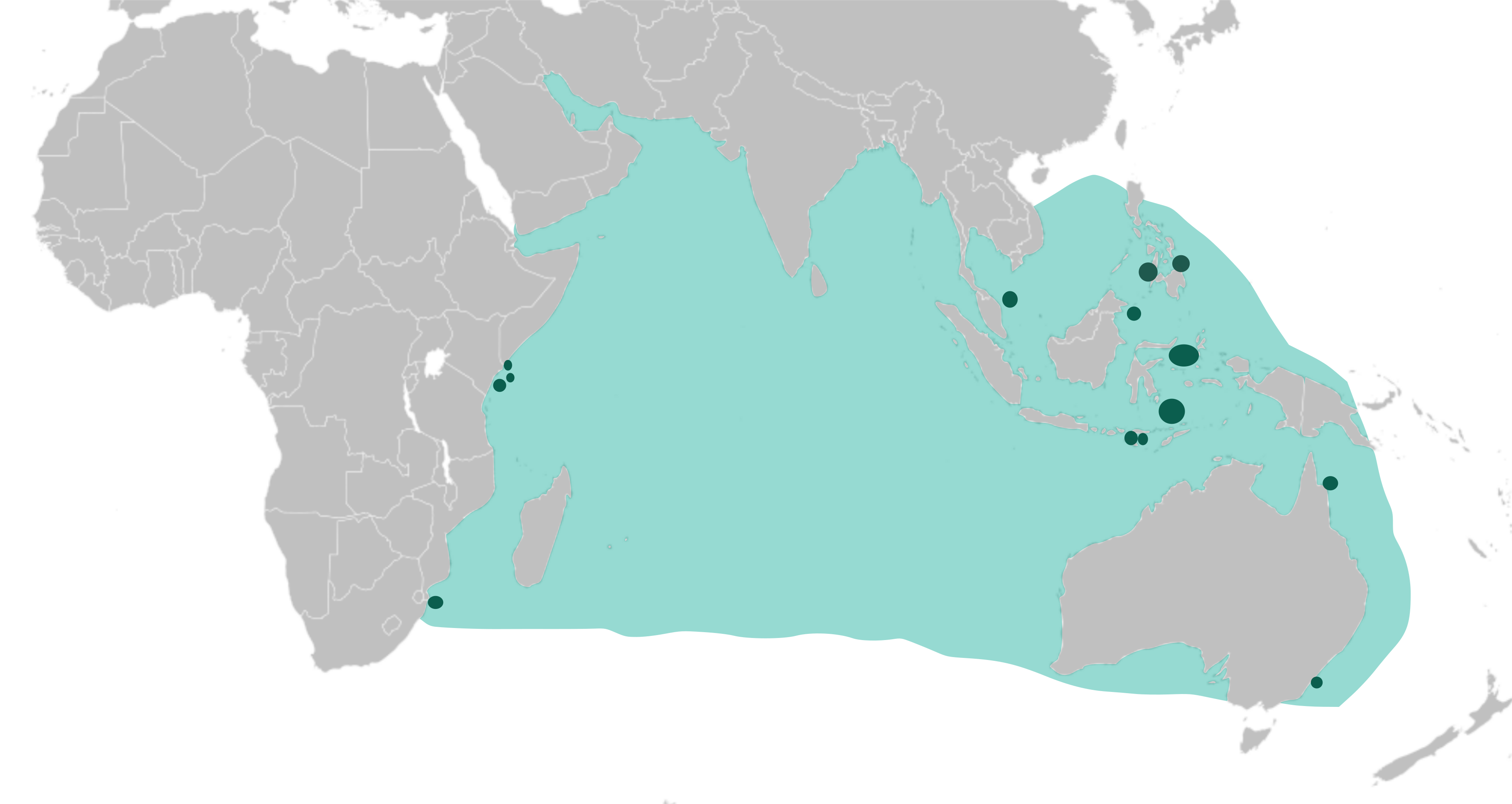 The green area is the expected distribution area and the dark green dots are observations of the species thats been made. Original blank SVG map by Canuckguy and others. Made with Inkscape